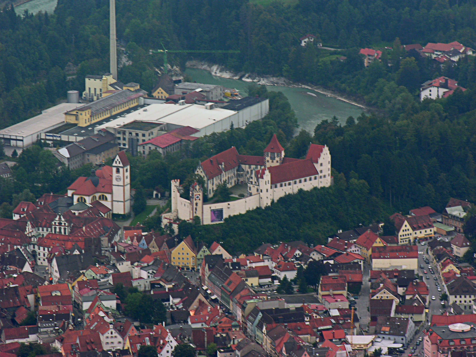 Germany, Bavaria, aerial view of Füssen